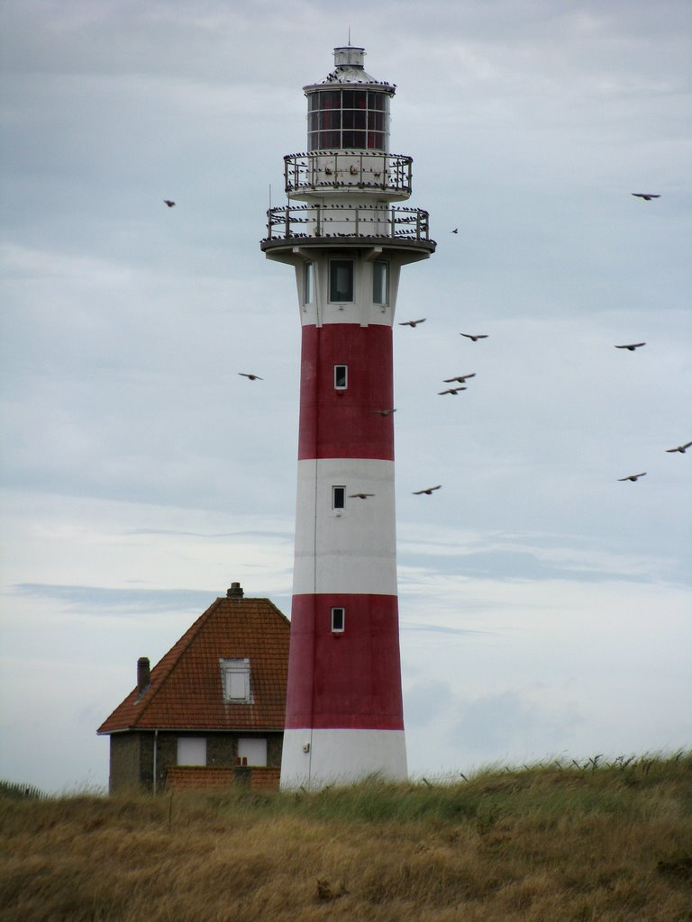 Lighthouse, Nieuwpoort